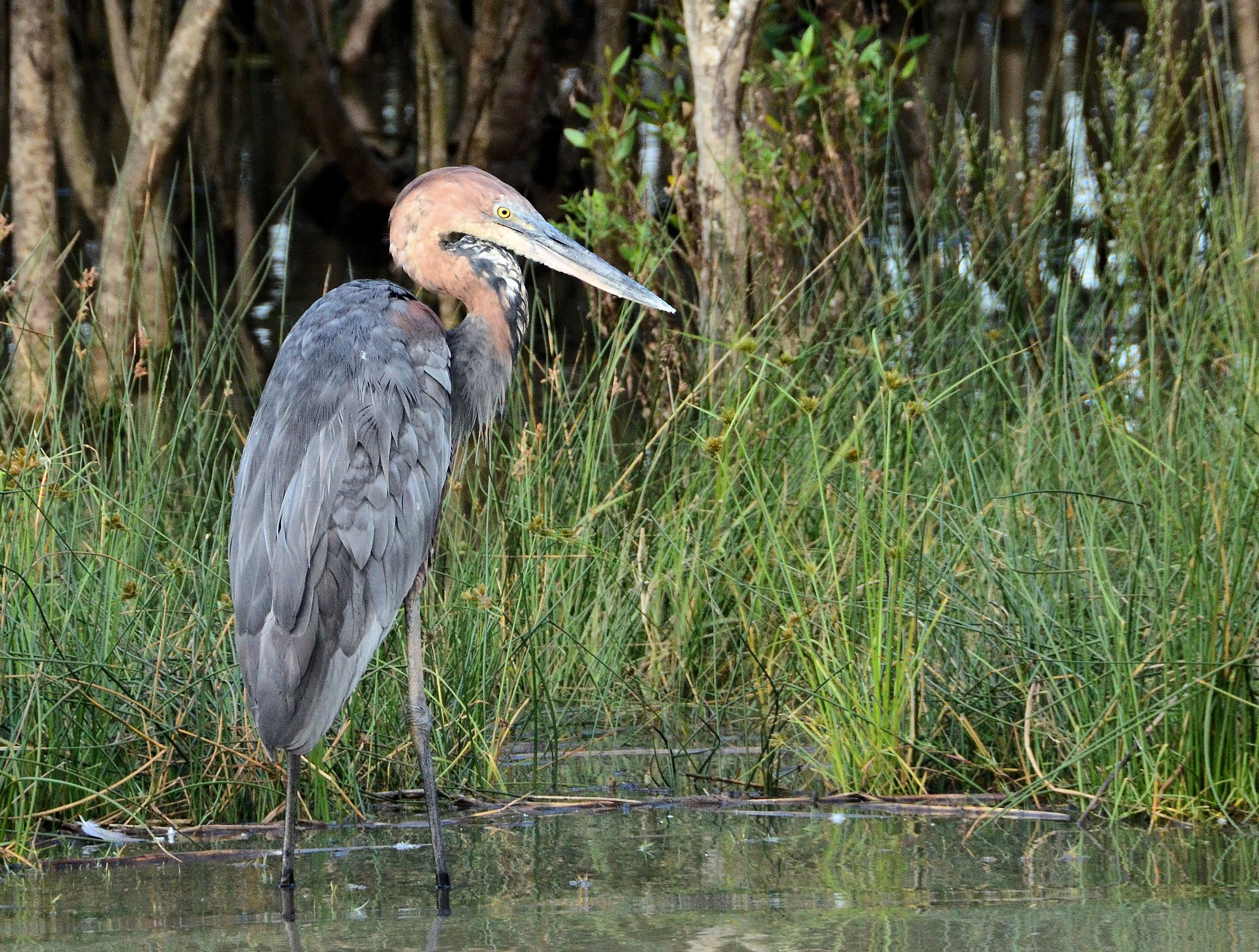 Goliath Heron (Ardea goliath), iSimangaliso Wetland Park, KwaZulu-Natal, South Africa